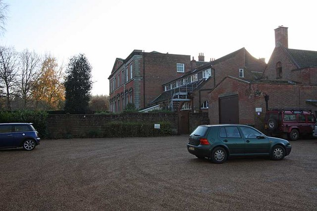 Quidenham Monastery